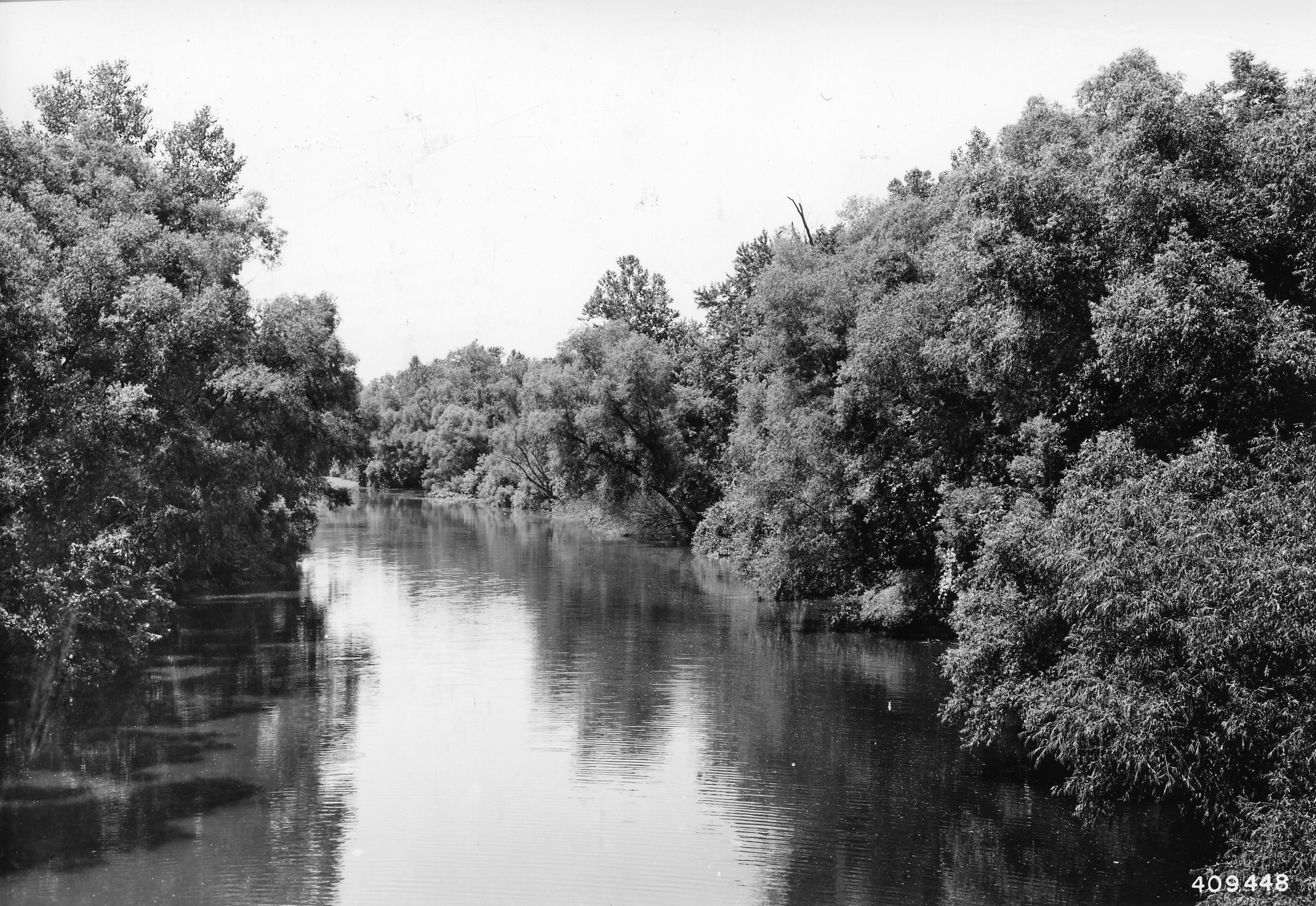 Scope and content: Original caption: Big Muddy River - looking upstream from Sand Ridge Bridge.